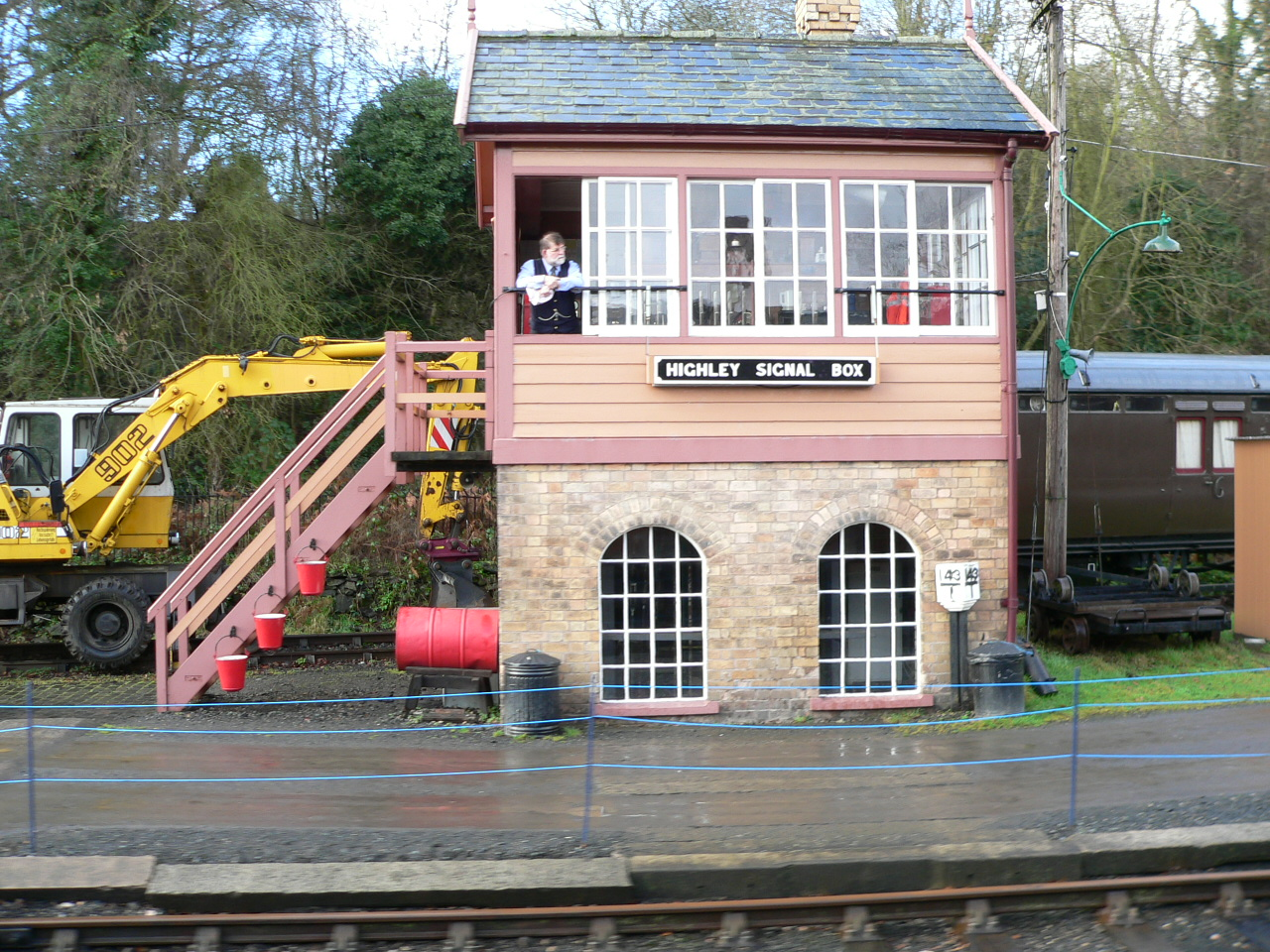 Highley Signal Box, adjacent to Highley railway station on the Severn Valley Railway. The period nature of the setting is unforutnately disturbed by a modern road/rail digger in the background.